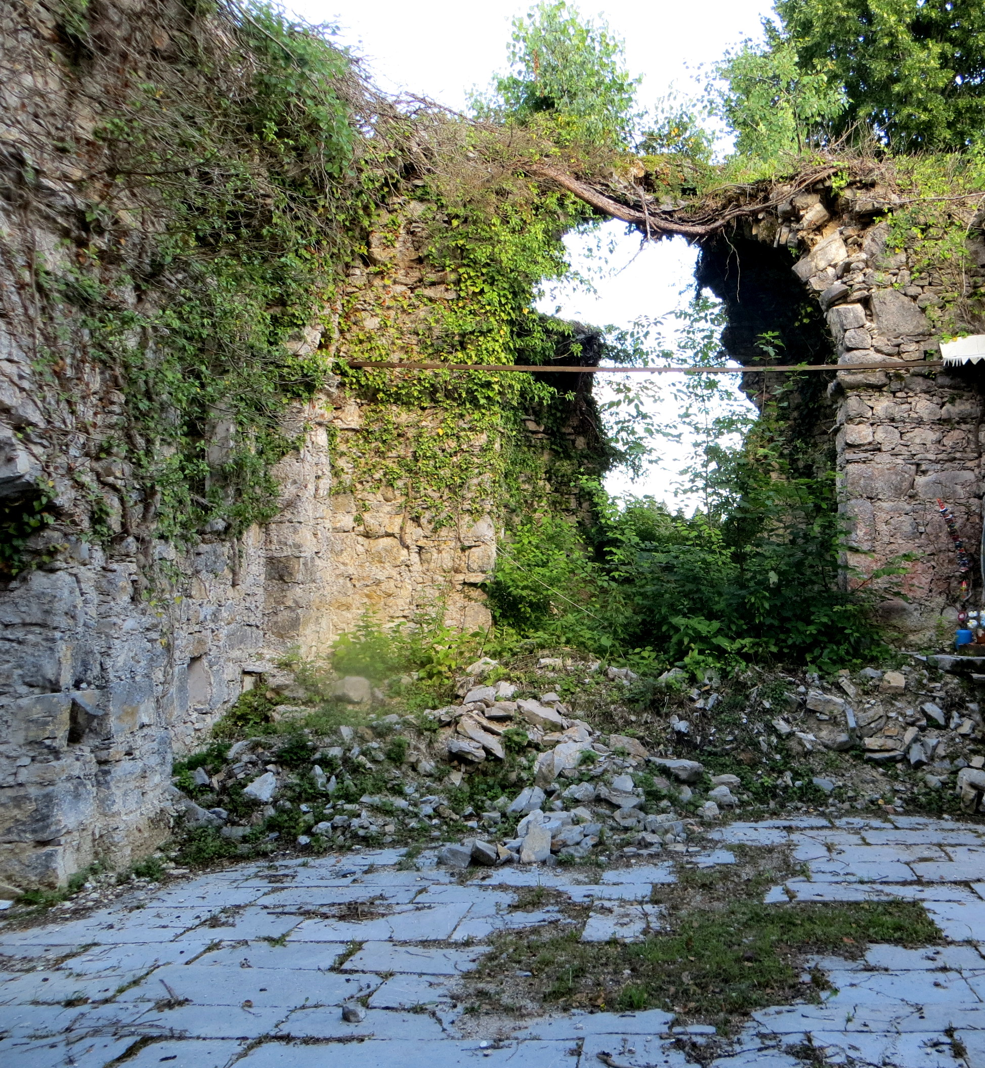 Interior of Holy Cross Church in Blatnik pri Črmošnjicah, Municipality of Semič, Slovenia